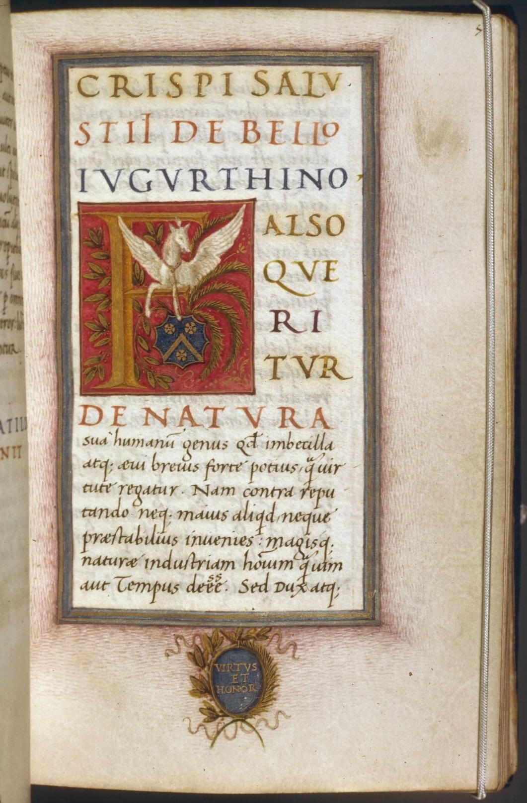 ca. 1490 manuscript of De bello Catilinae ; De bello Iugurthino, originally credited to Sallust. MS Richardson 17, Houghton Library, Harvard University